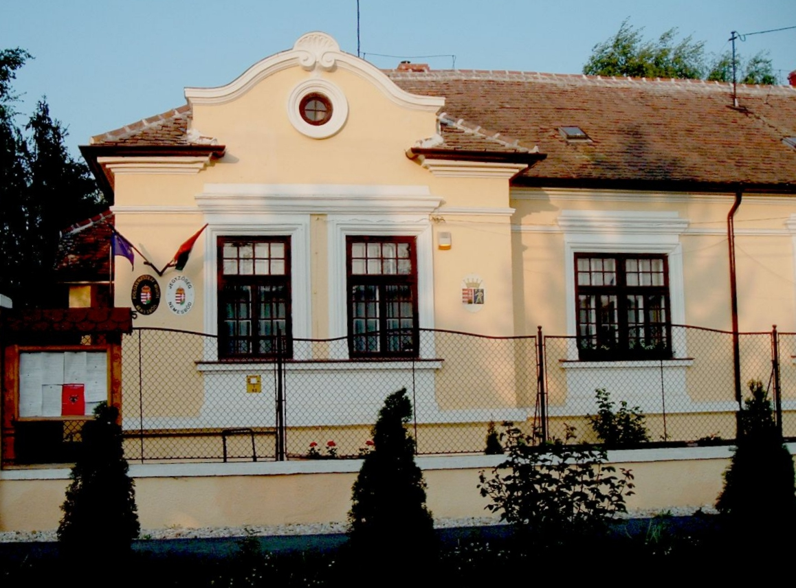 Nemesbőd, The Mayor's Office